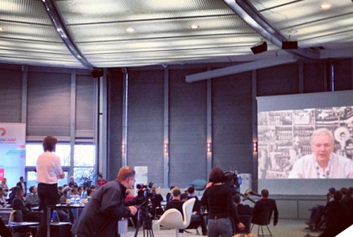 Julian Assange at the #cch12, after having a cup of Ecuadorian coffee...